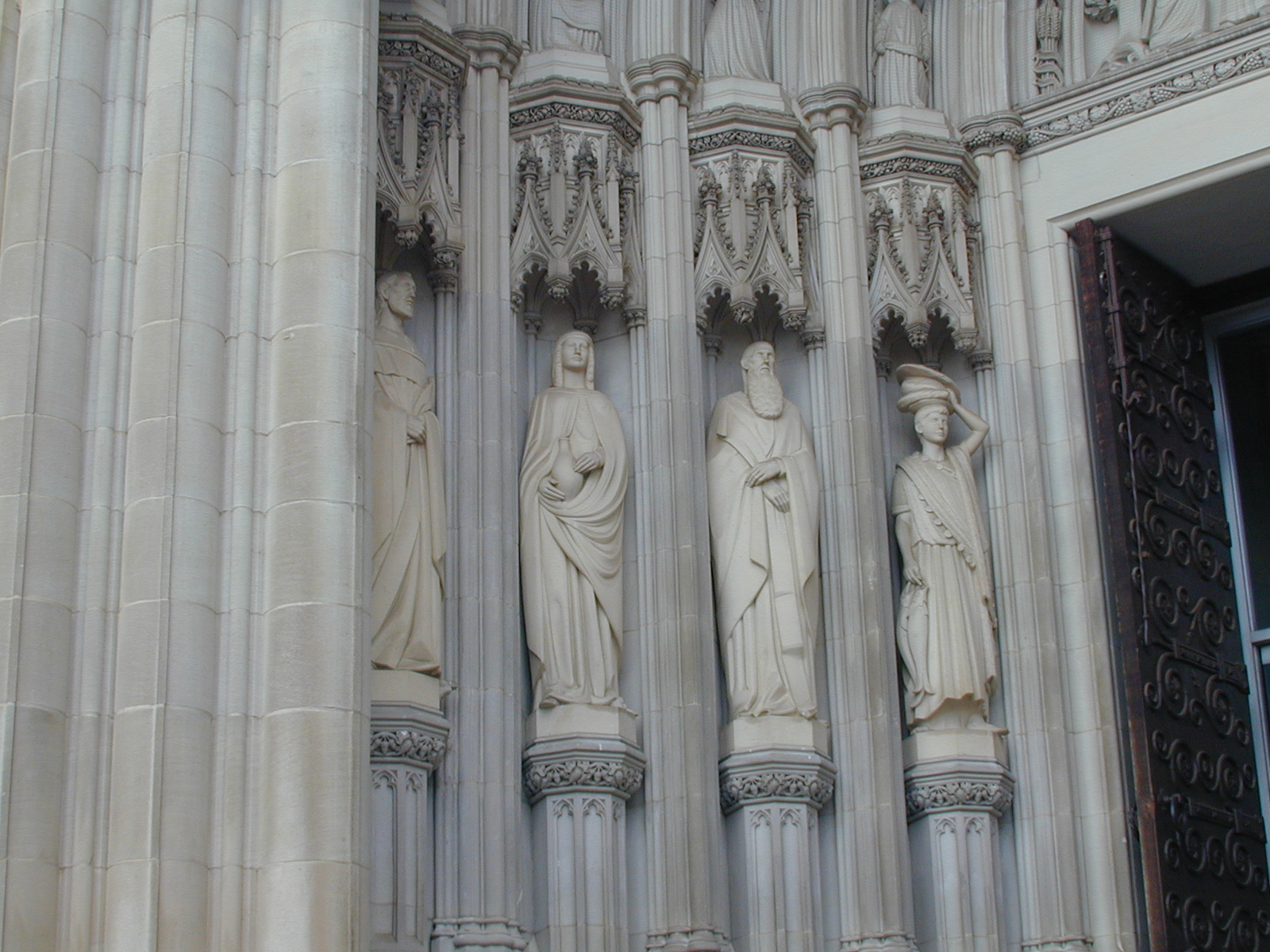 South portal sculpture, by Spanish sculptor Enrique Monjo, at The Washington National Cathedral.